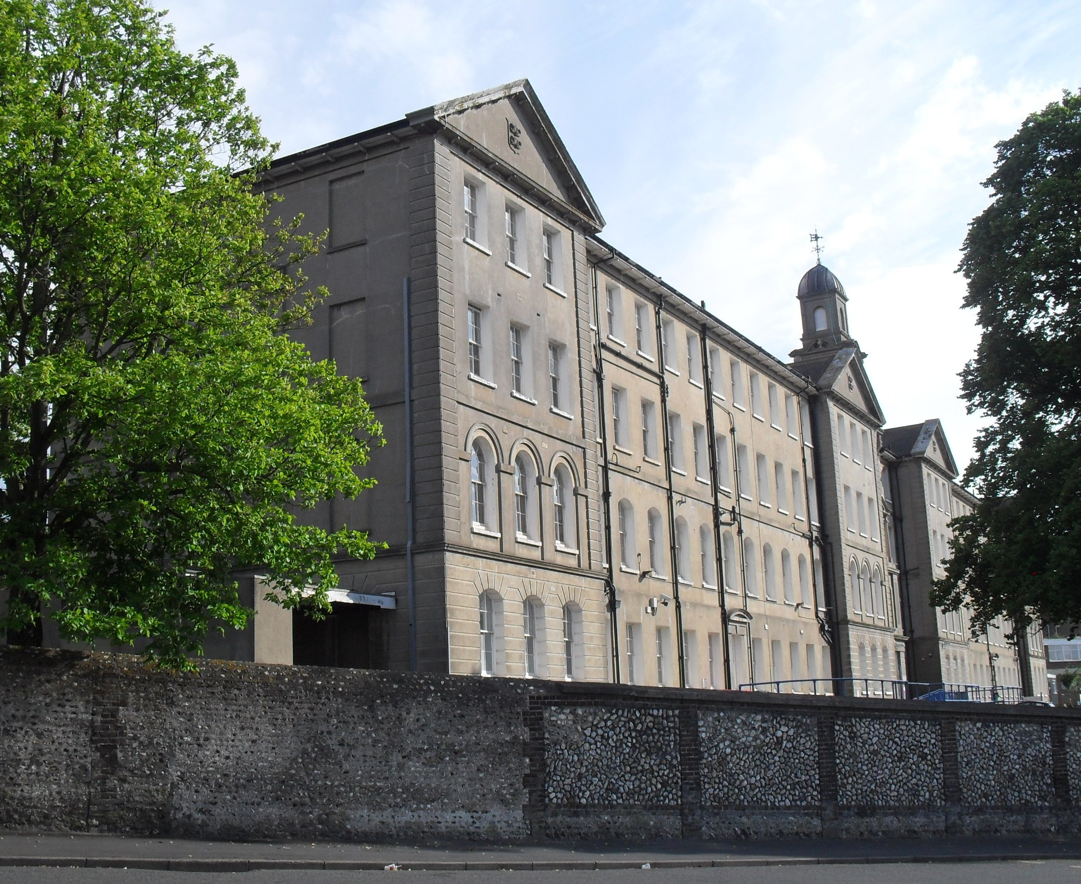 Brighton General Hospital (Arundel Building), Elm Grove, Brighton, City of Brighton and Hove, England. Built in 1865–67 by George Maynard as Brighton's workhouse. In 1935, it became the main building of Brighton General Hospital. Listed at Grade II by English Heritage (IoE Code 480729)